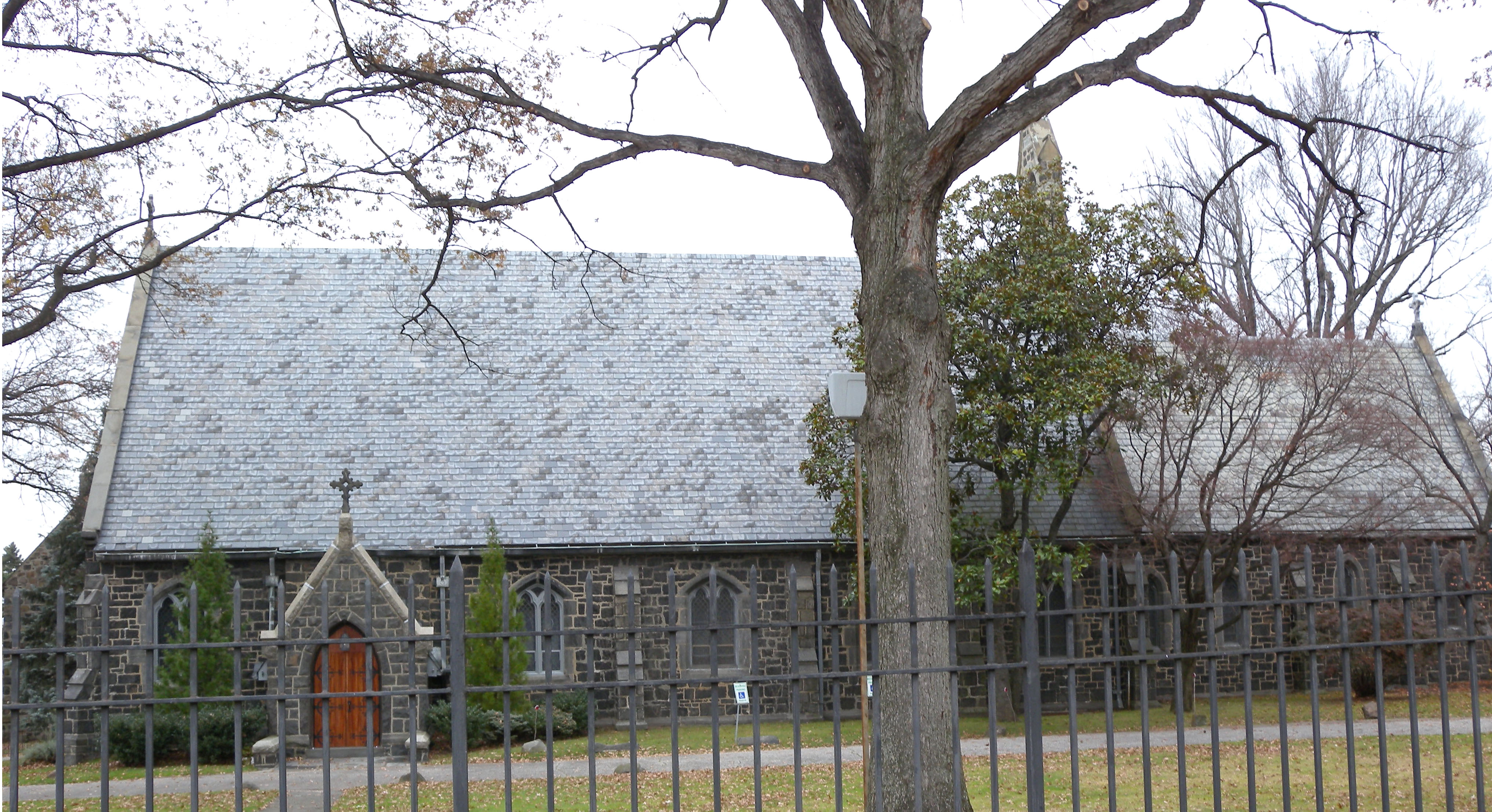 Looking north at Saint Mary's Episcopal Church in Castleton on a cloudy midday.